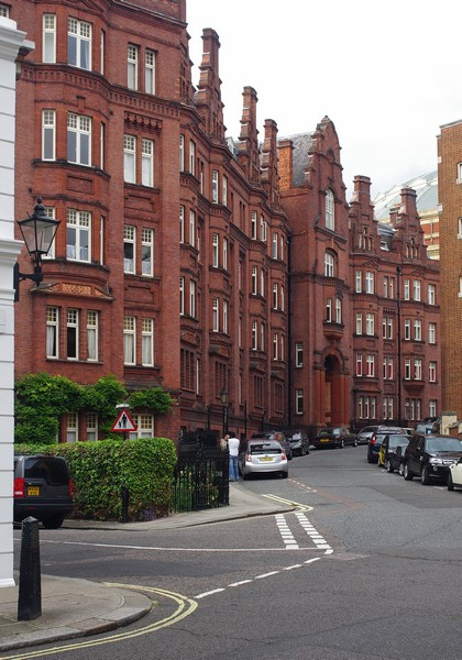 Queen Alexandra's House, Kensington Gore, London SW7. Grade II listed building of 1884, built as student accommodation for women.